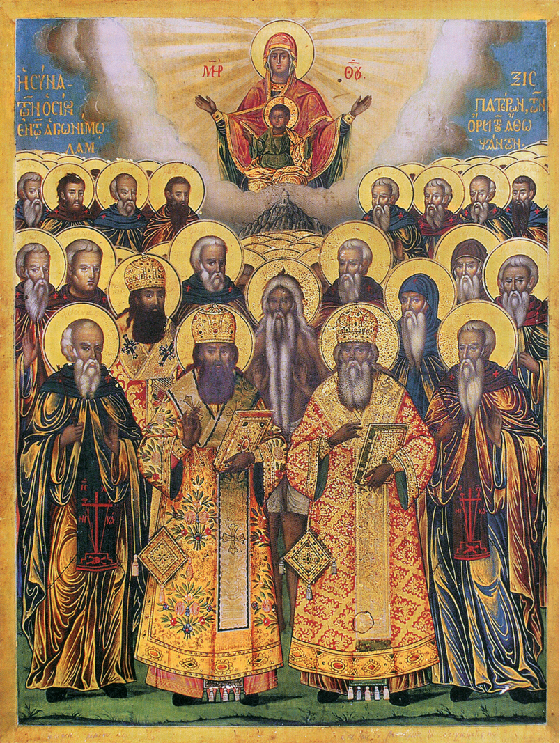 Saints of Mount Athos Icon in Grigoriou by Veniamin from Galatista 1841